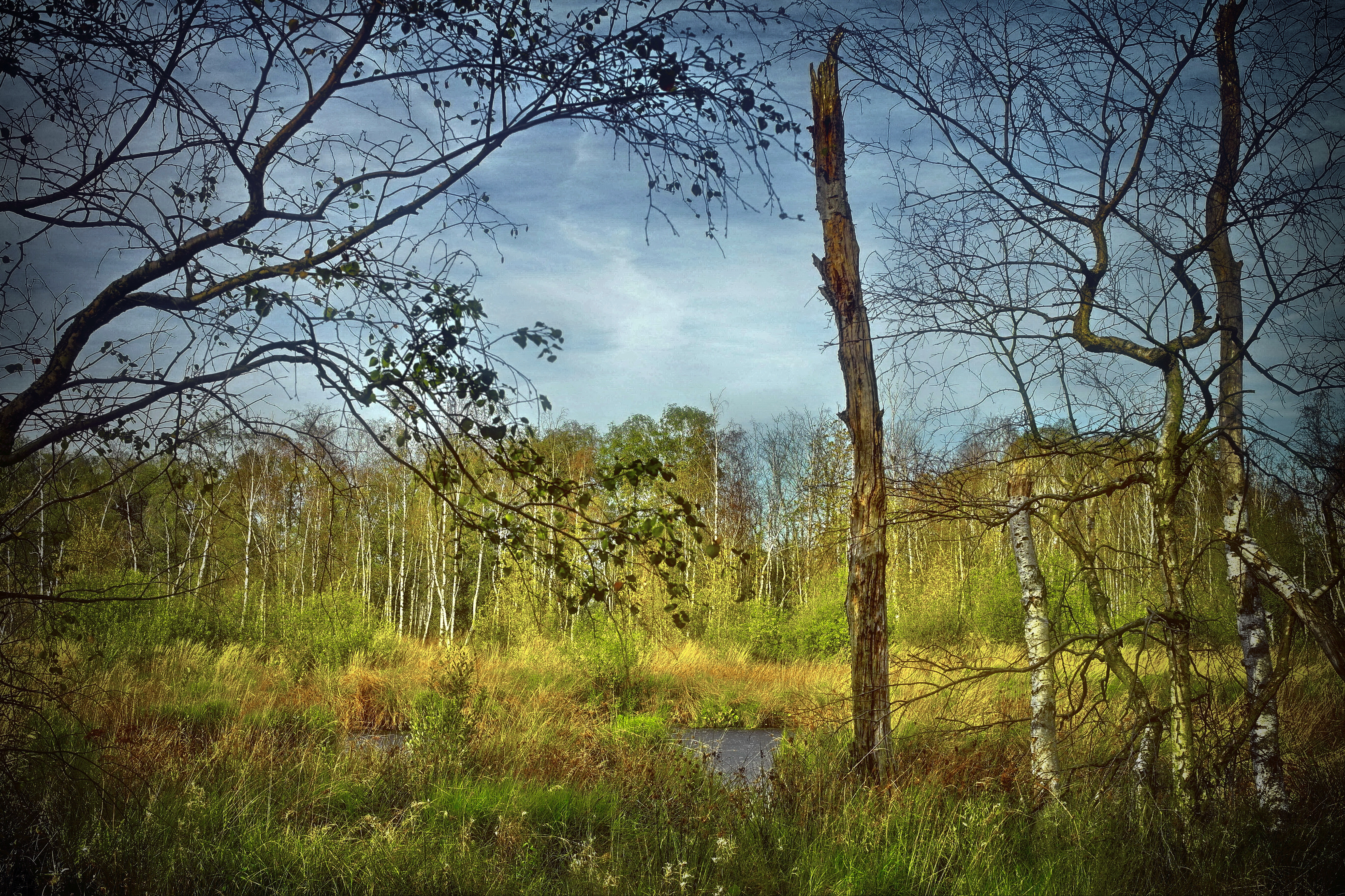 The "Freimoor" nature reserve belongs to the town of Espelkamp and is located south of the district of Frotheim in the immediate vicinity of the Mittellandkanal; many bird species and rare plant communities live here and find their optimal living conditions.